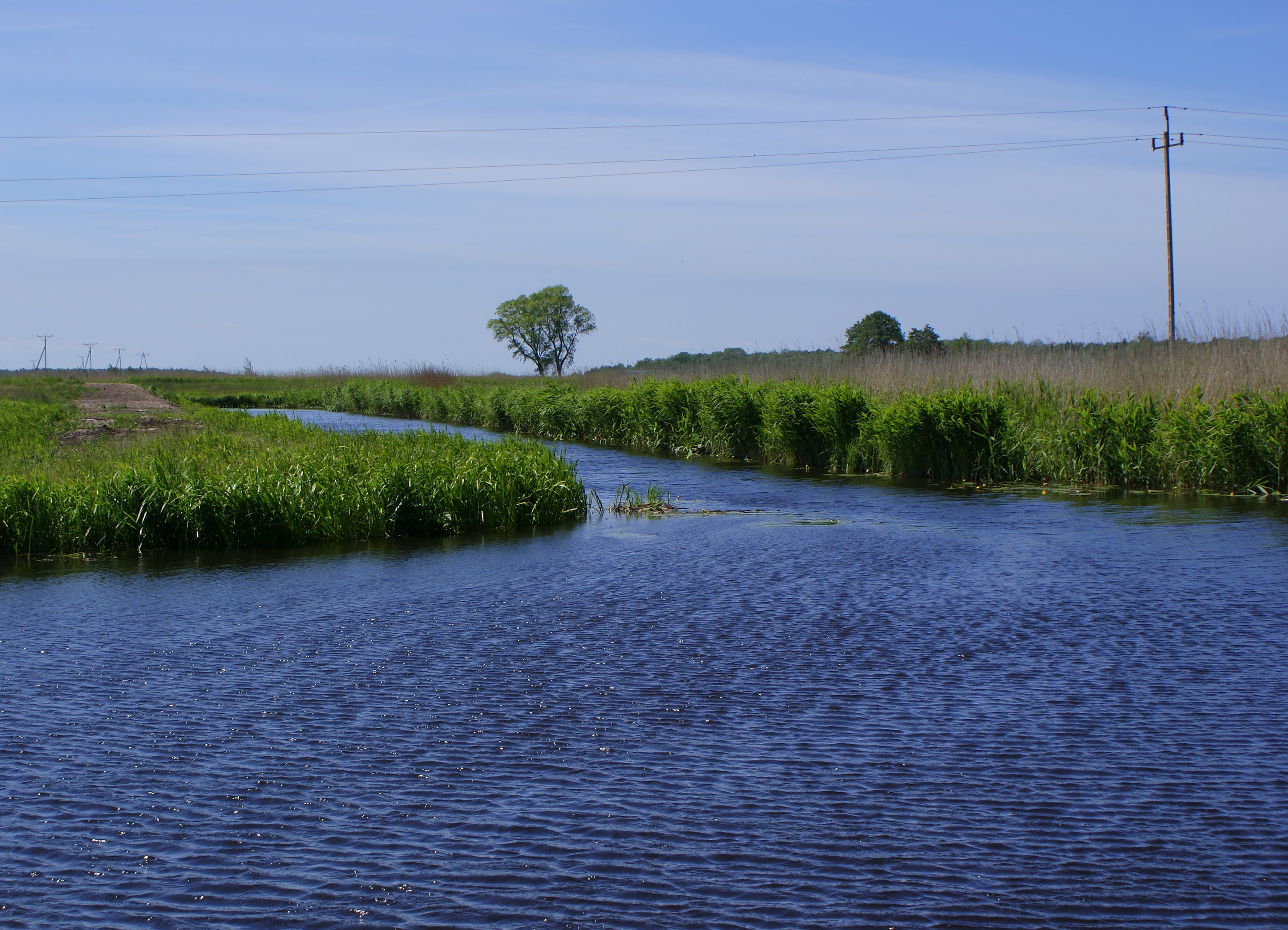 Zgniła Rega stream confluence into Stara Rega